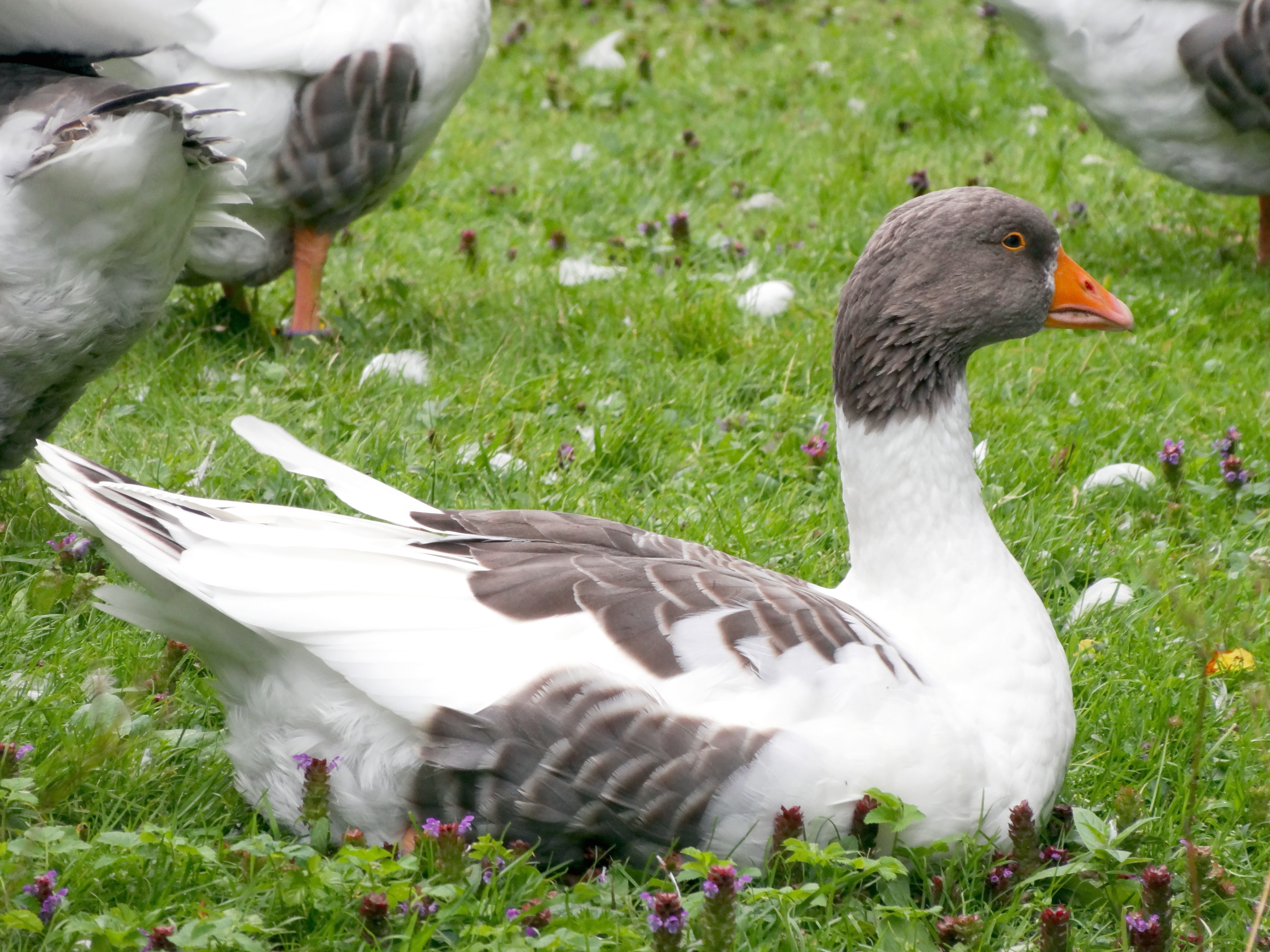 Öland geese in Slottsskogen, Göteborg, Sweden.